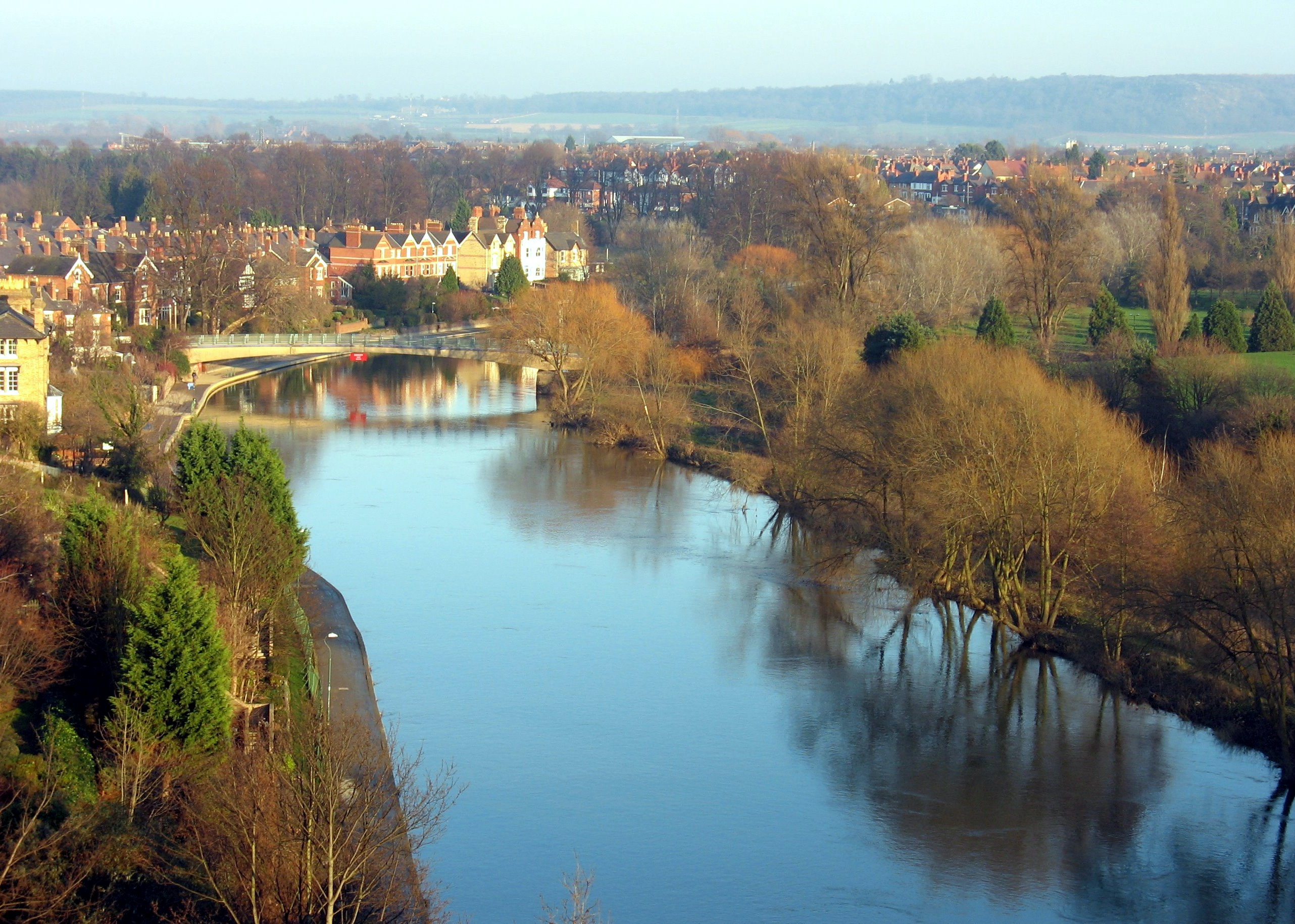 The River Severn in Shrewsbury, viewed from Shrewsbury Castle looking downstream. Photo by Chris Bayley.